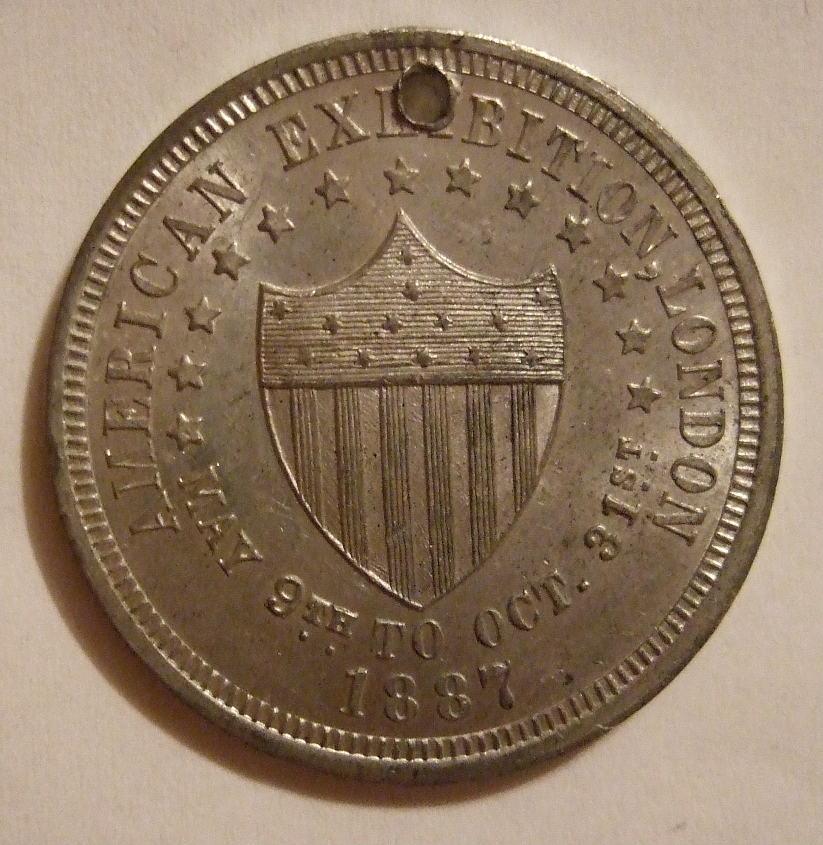 This aluminum token was struck during the American Exhibition in London England at the time Britain was celebrating Queen Victoria's Golden Jubilee in 1887. In 1887 the manufacture of aluminum was a complex procedure and it's manufacture made it worth more than silver at the time. This token medallion is one of the earliest made of aluminum.